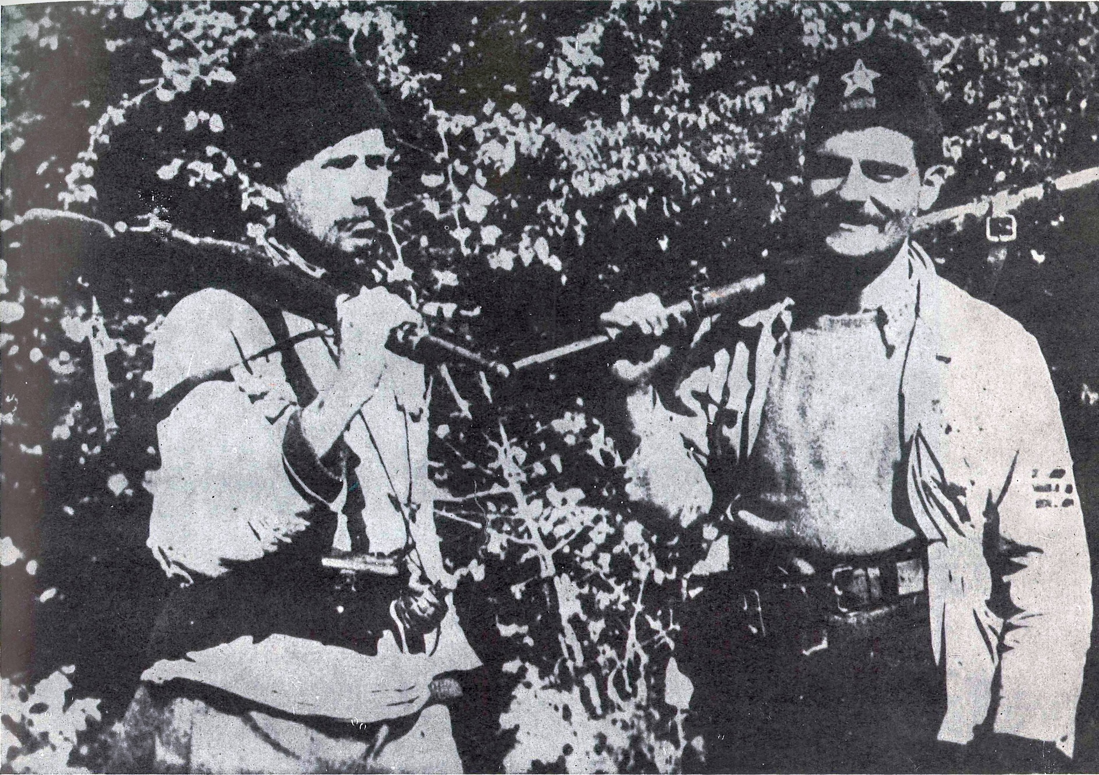 Partisans from the Prilep detachment, 1941. This media file is produced by Wikipedian in Residence in Category:Wikipedian in Residence at DARM in 2016.